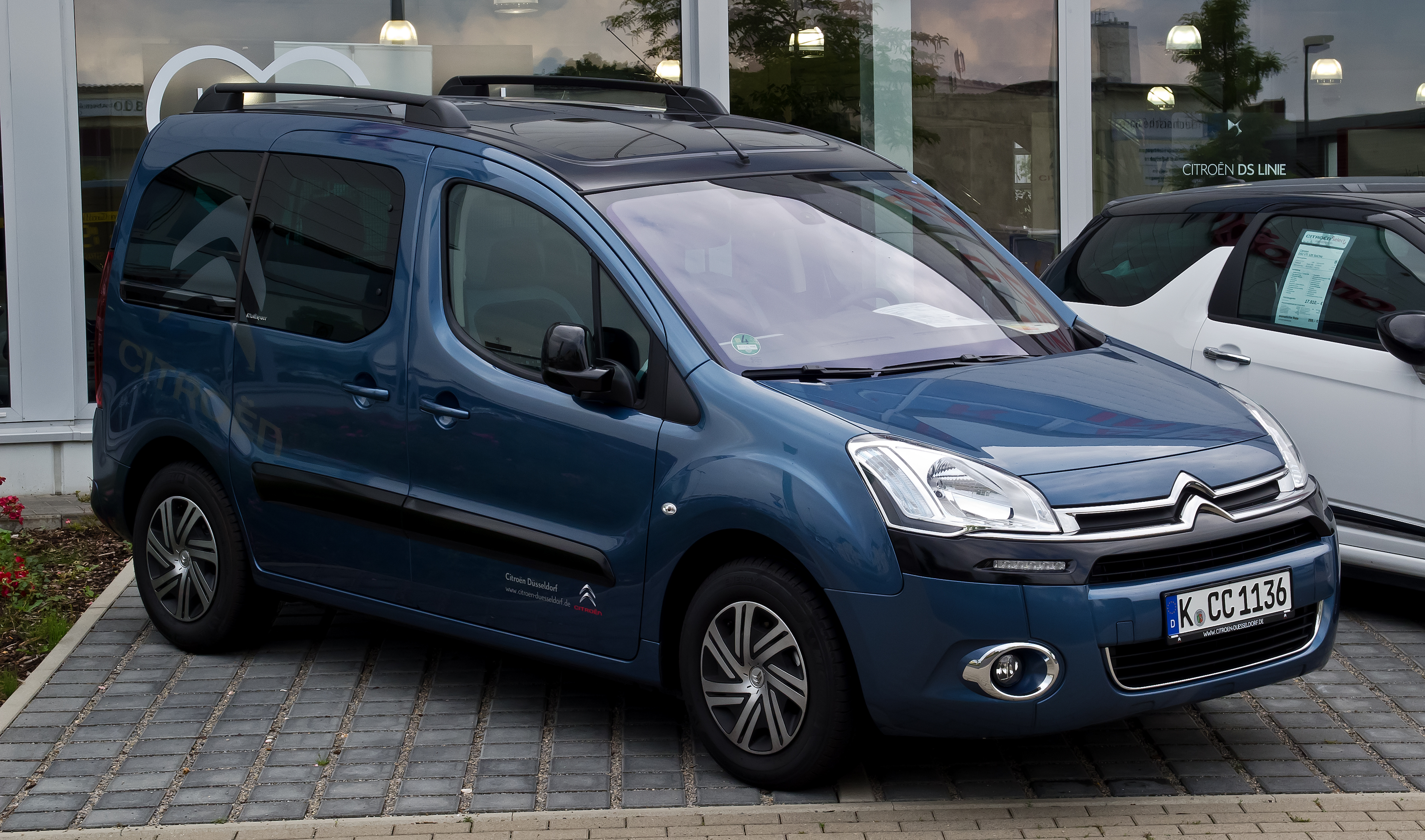 Citroën Berlingo Multispace VTi 120 Selection (II, Facelift)